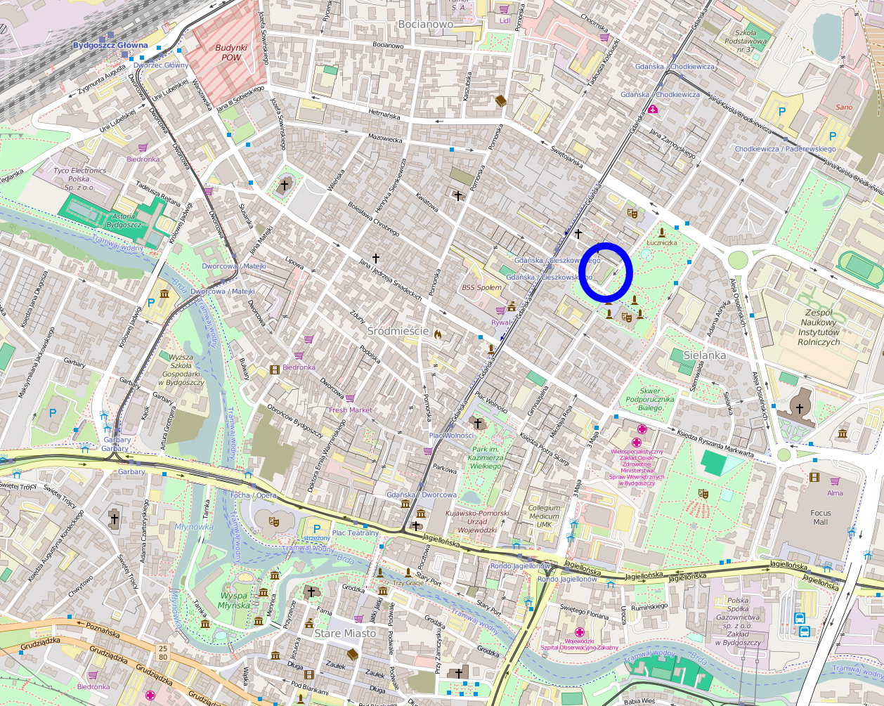 Location of the building on a map of Bydgoszcz